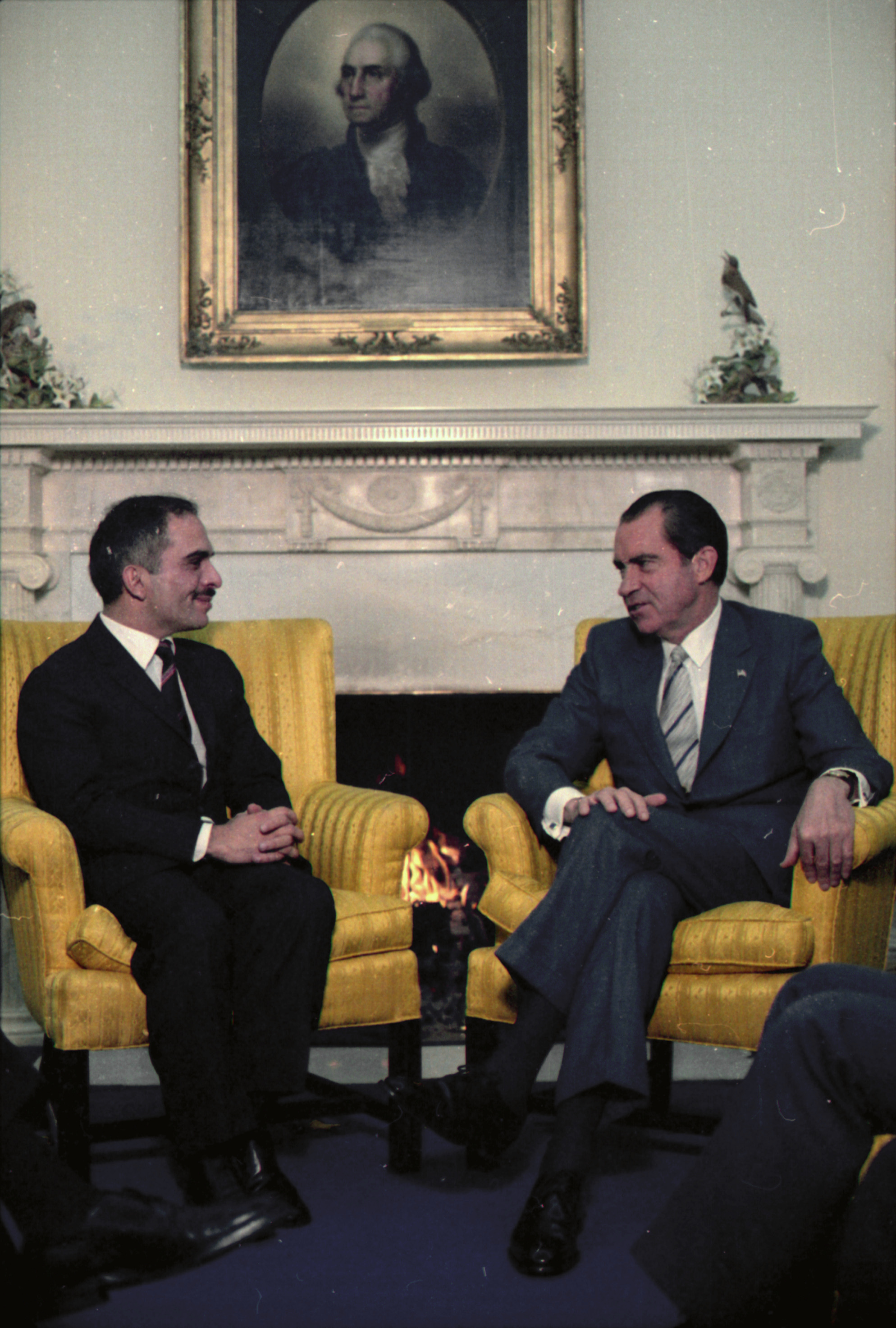 Scope and content: Pictured: King Hussein of Jordan, President Nixon. Subject: Head of State - Arab.